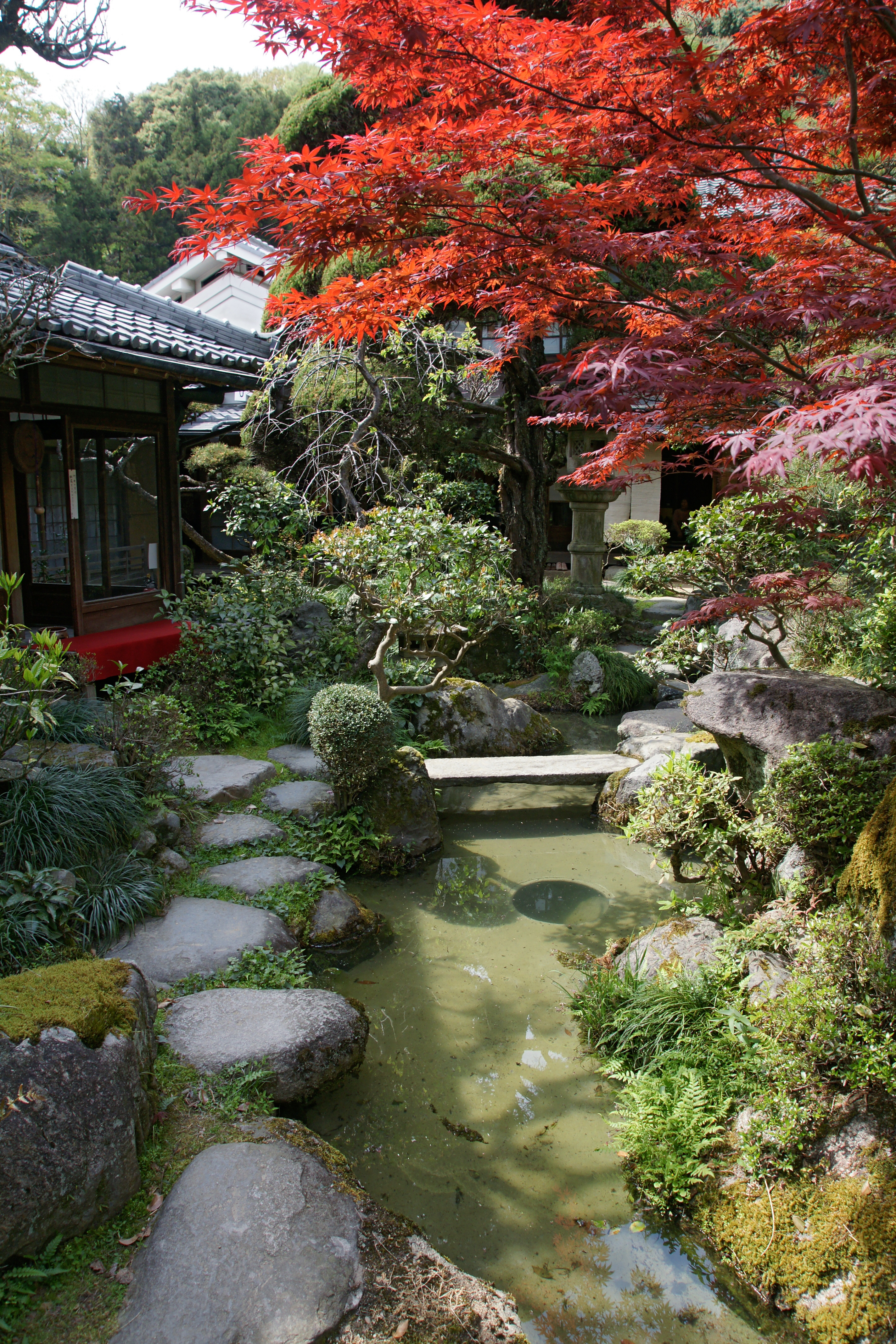 Museum and Restaurant "HASEJI" in Sakurai, Nara prefecture, Japan